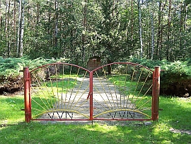 Memorial site at the former Nazi-era HASAG Werk Flößberg labor camp, just outside Flößberg, Germany